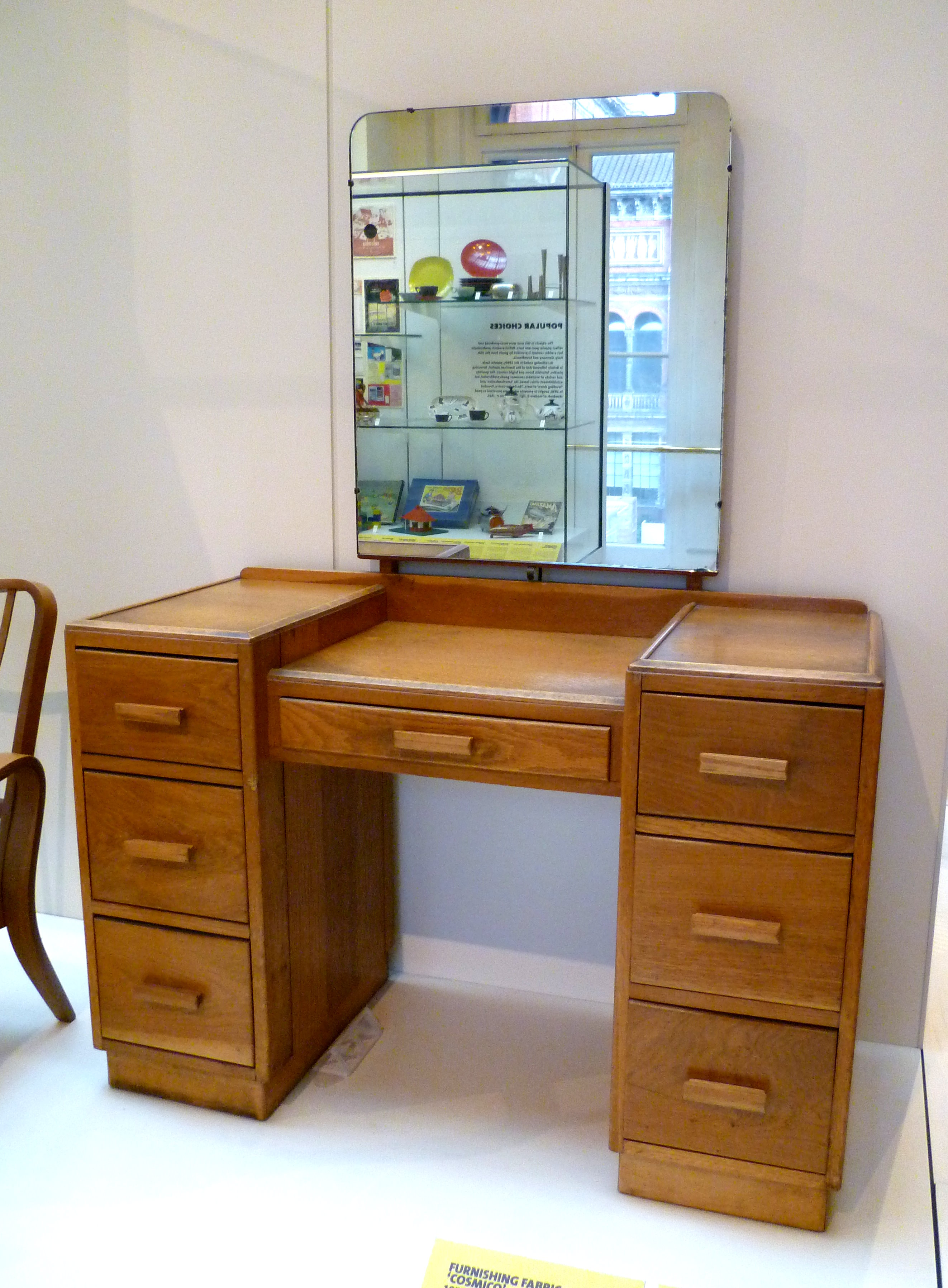 Utility Design Panel dressing table made by Heal & Son Ltd., London, 1947. Oak. Design c. 1943. Victoria & Albert Museum item number W.114-1978.